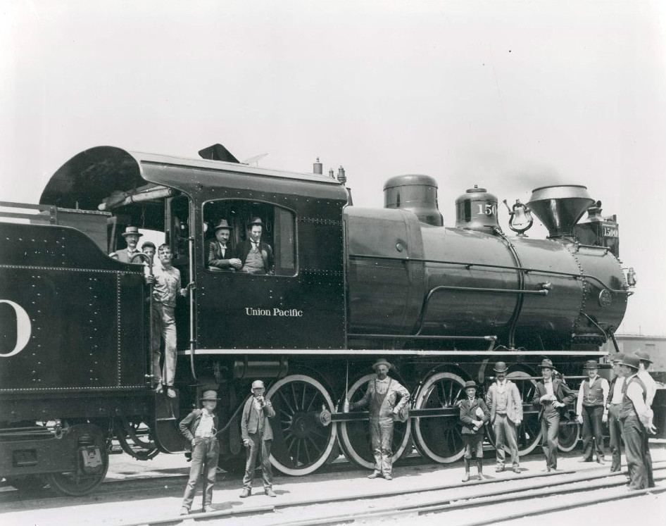 Photo of Union Pacific Railroad steam locomotive #1500, a 4-8-0 locomotive.